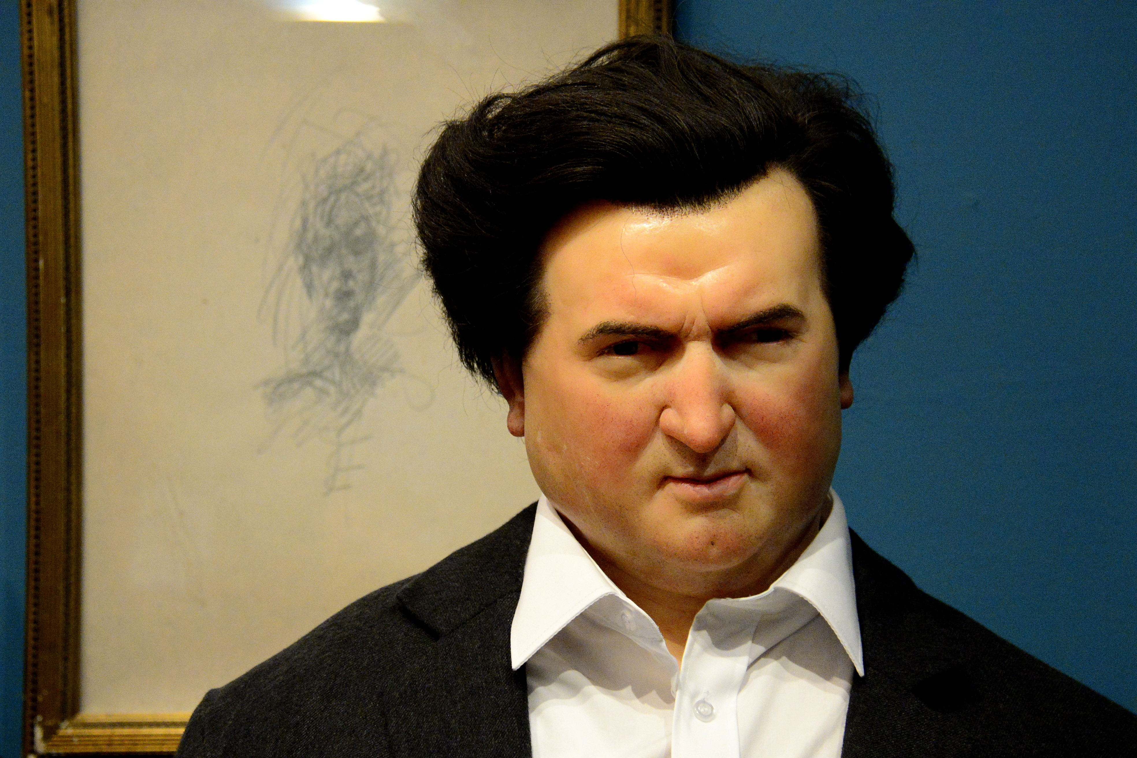 Brendan Behan (1923-1964) was an Irish poet, short writer, novelist, and playwright, who wrote in both Irish and English. His major breakthrough came in in 1954 with his play "The Quare Fellow". Wax sculpture (the name of the sculptor was not mentioned). The National Wax Museum Plus, Dublin, Republic of Ireland.